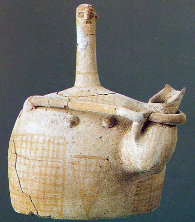 The Goddess of Myrtos, Archaeological Museum of Agios Nikolaos.